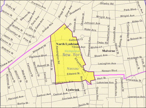 U.S. Census 2000 reference map for North Lynbrook, New York